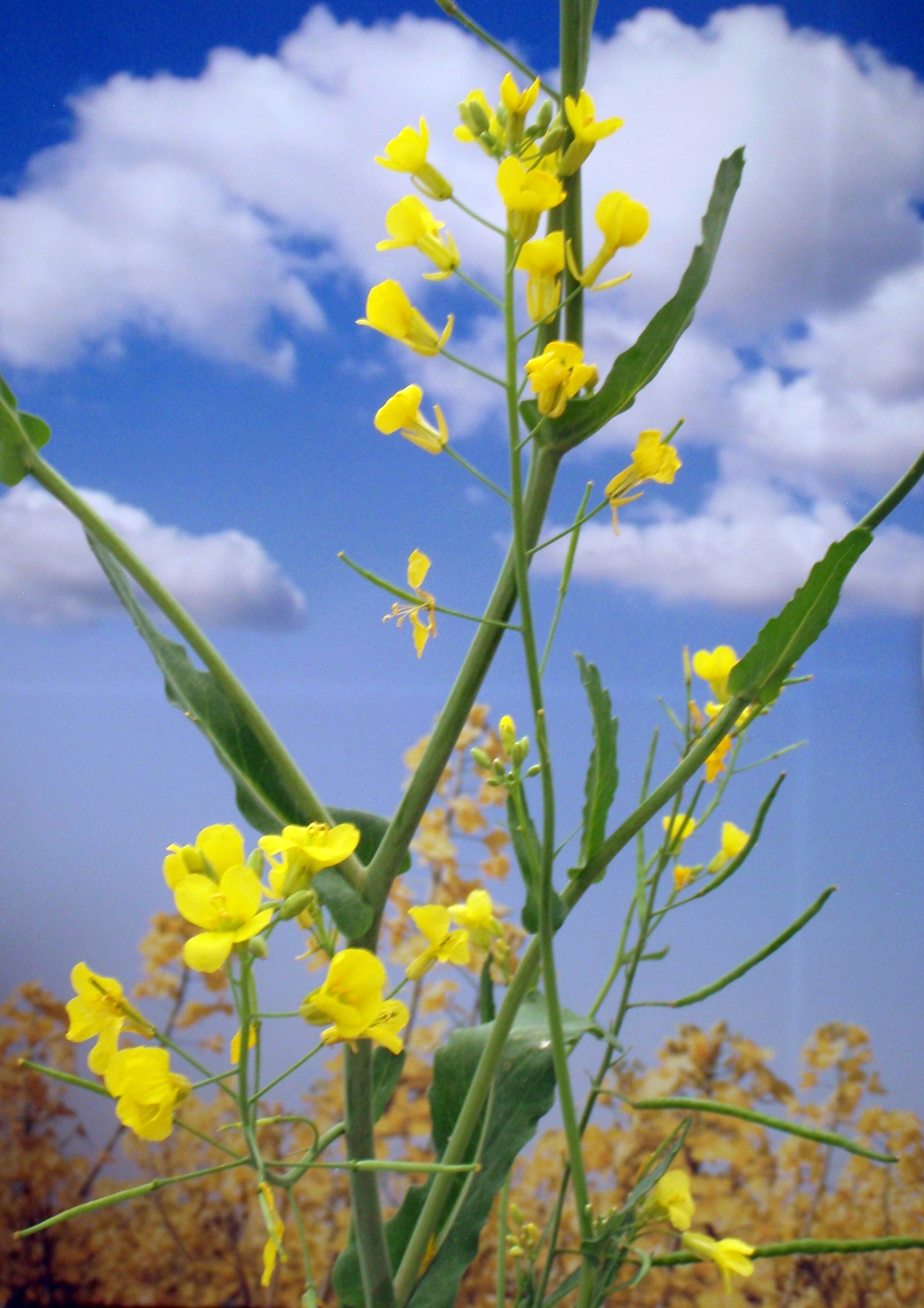 A Canola plant in bloom.